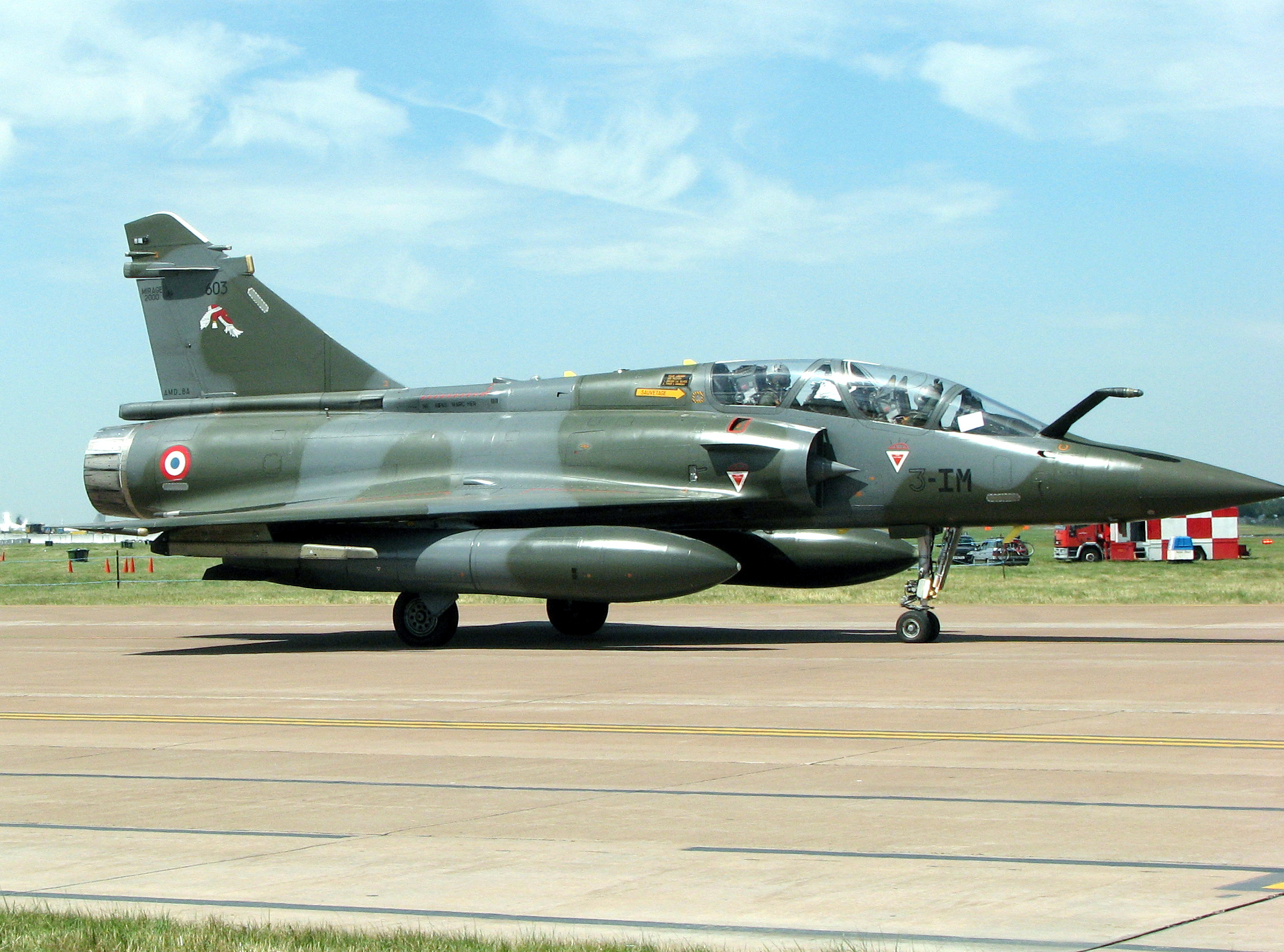 AMD-BA Mirage 2000D of the French Air Force (codes 3-IM and 603) taxis for takeoff at the Royal International Air Tattoo, Fairford, Gloucestershire, England. Photographed by Adrian Pingstone on July 17th 2006 and released to the public domain.